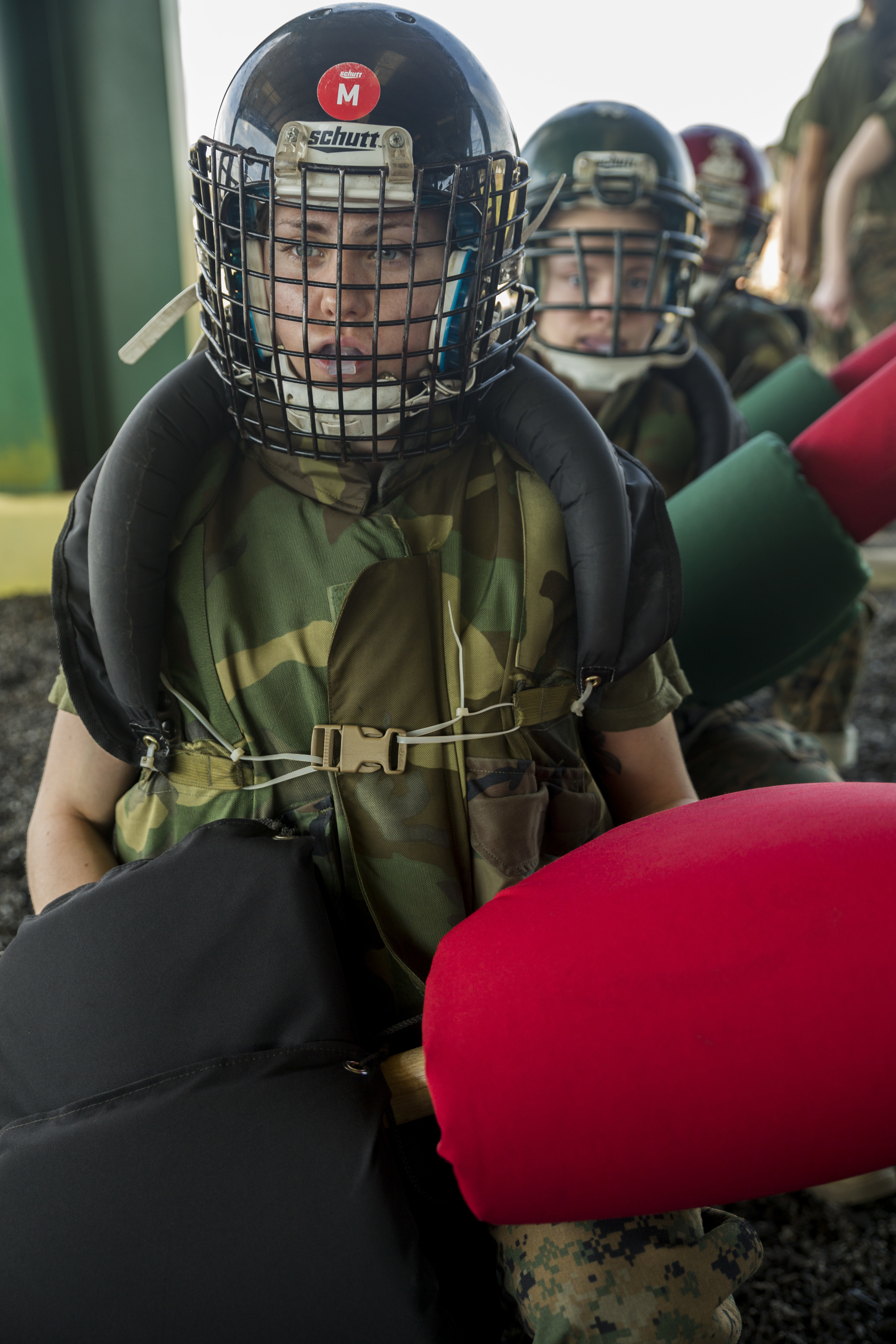 Recruits of Papa Company, 4th Recruit Training Battalion, wait their turn during pugil stick training March 4, 2015, on Parris Island, S.C. Recruits fight using pugil sticks, which represent rifles with fixed bayonets, to simulate a close encounter with an enemy. Bayonet training is part of the Marine Corps Martial Arts Program, which combines hand-to hand combat skills with mental discipline and character development to transform recruits into physically and morally sound warriors. Papa Company is scheduled to graduate May 15, 2015. Parris Island has been the site of Marine Corps recruit training since Nov. 1, 1915. Today, approximately 20,000 recruits come to Parris Island annually for the chance to become United States Marines by enduring 13 weeks of rigorous, transformative training. Parris Island is home to entry-level enlisted training for 50 percent of males and 100 percent of females in the Marine Corps. (Photo by Sgt. Jennifer Schubert)